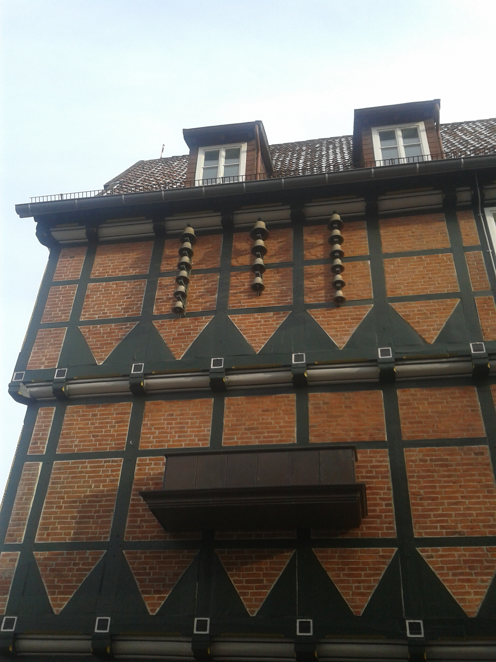 Carillon in Celle, Lower-Saxony, Germany